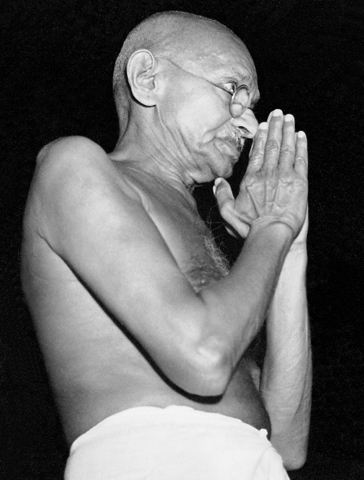 Image found by Yann and edited to remove watermark by Editor at Large.